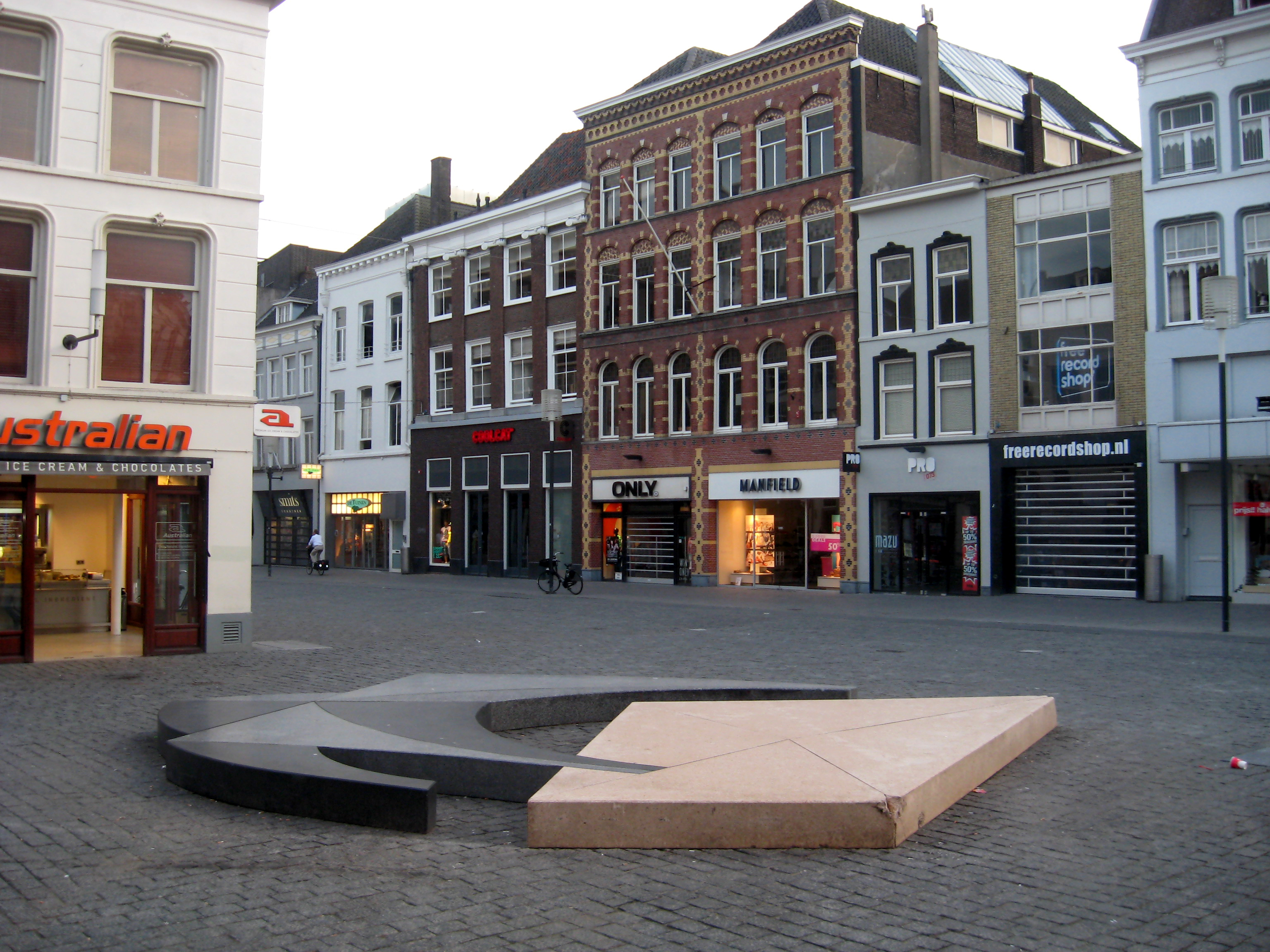 Etude gotique